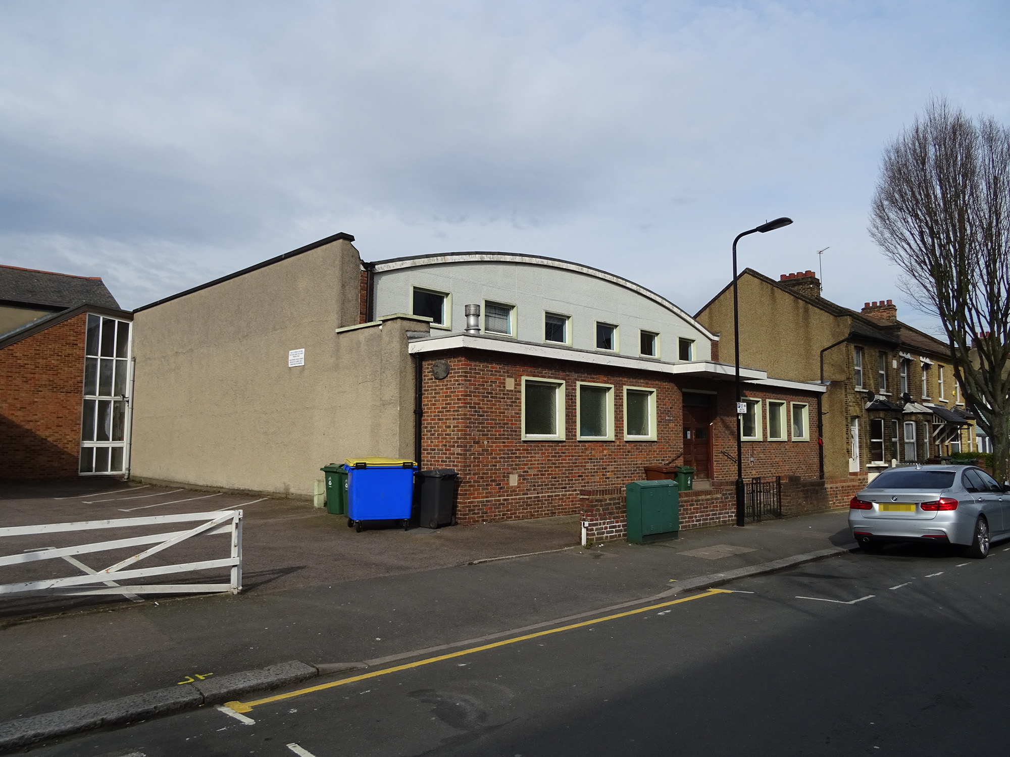 On this site stood "The Cedars" wherein Mary Fletcher, Nee Bosanquet, resided 1763 - 1768. Erected by the L.U.D.R.A. 1909.